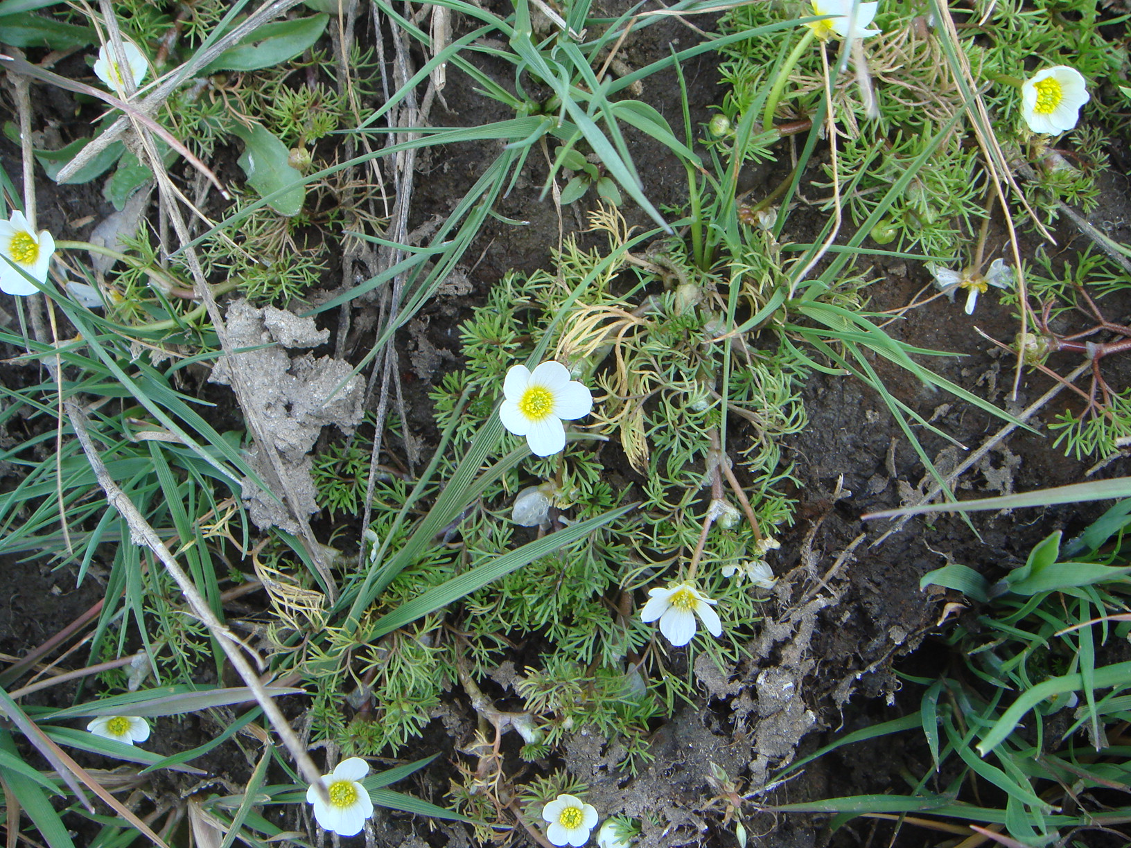 Ranunculus trichophyllus